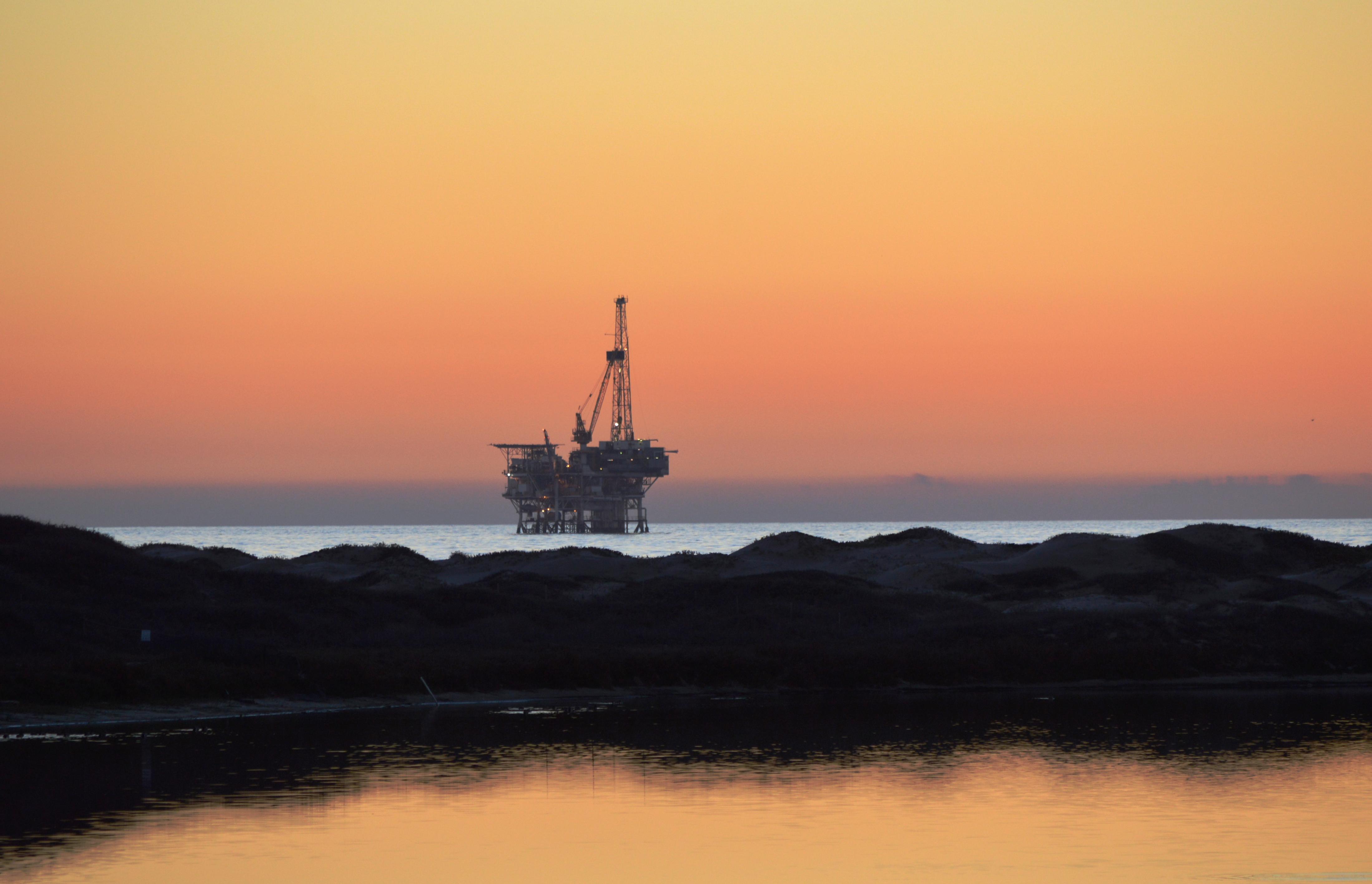 Oil platform (Platform Holly of the South Ellwood Offshore field - Google Maps) in the Santa Barbara Channel, seen from Devereux Lagoon (a.k.a. Devereux Slough) in Goleta, Santa Barbara County, California, U.S.A. at sunset. Lights on the oil platform had just been turned on; see another photo from about 20 minutes earlier as a comparison. I didn't know when I took the photo, but Ellwood is known for the Bombardment of Ellwood (a.k.a. "the Ellwood Oil Field shelling"[1]) by a Japanese submarine during World War II. In the background are the Channel Islands. This is not the same photo as File:Devereux Lagoon (2013) 15.JPG.